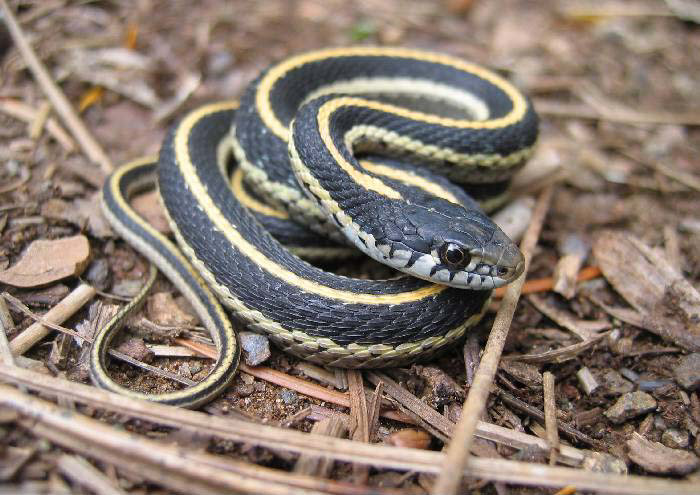 Western Terrestrial Garter Snake Juvenile